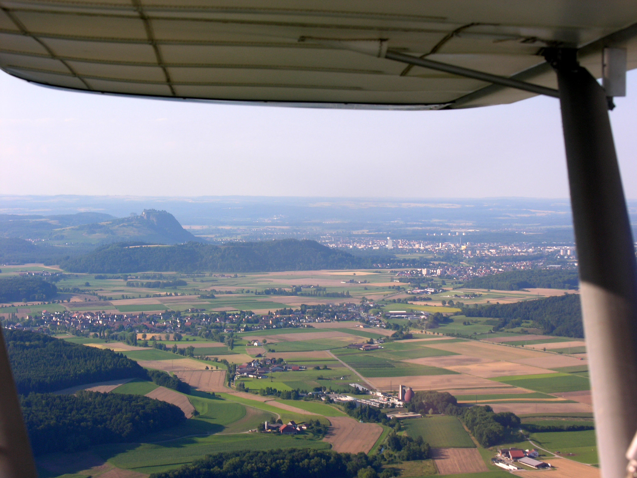 Aerial View of Ramsen and Singen in the Background